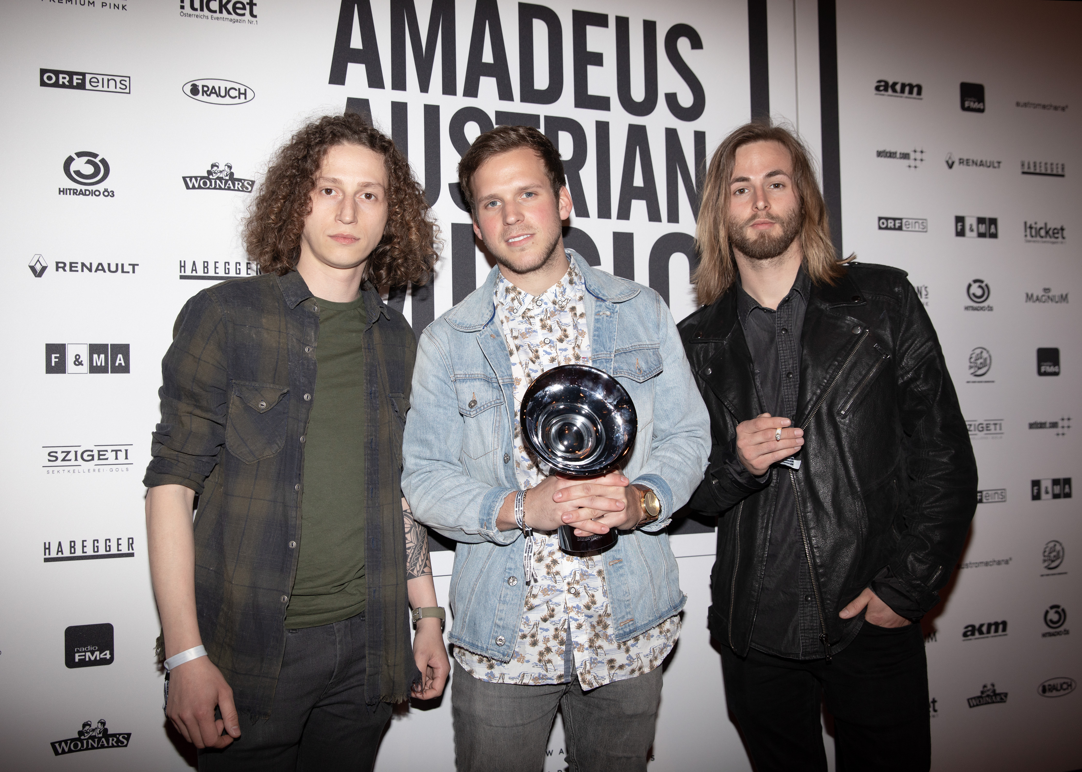 Kaiser Franz Josef at the Amadeus Austrian Music Award 2018 at Volkstheater in Vienna.